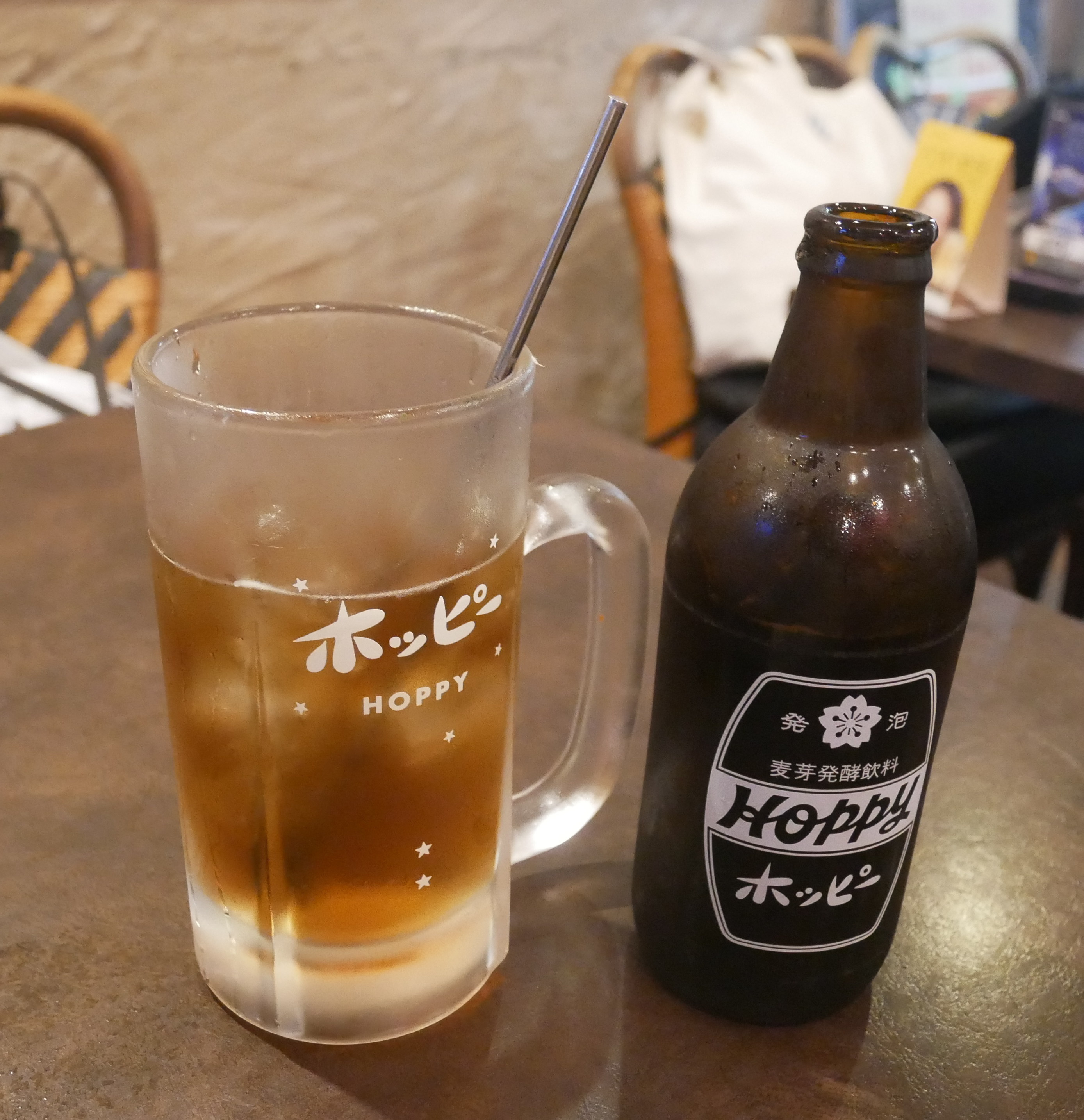 Hoppy and its bottle